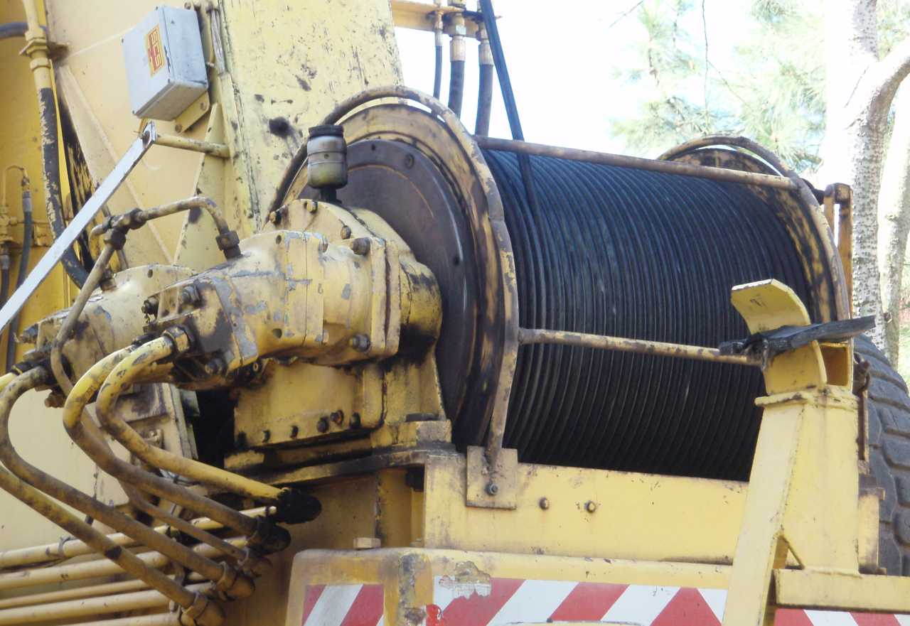 Winch, crane mounted on a Tatra truck